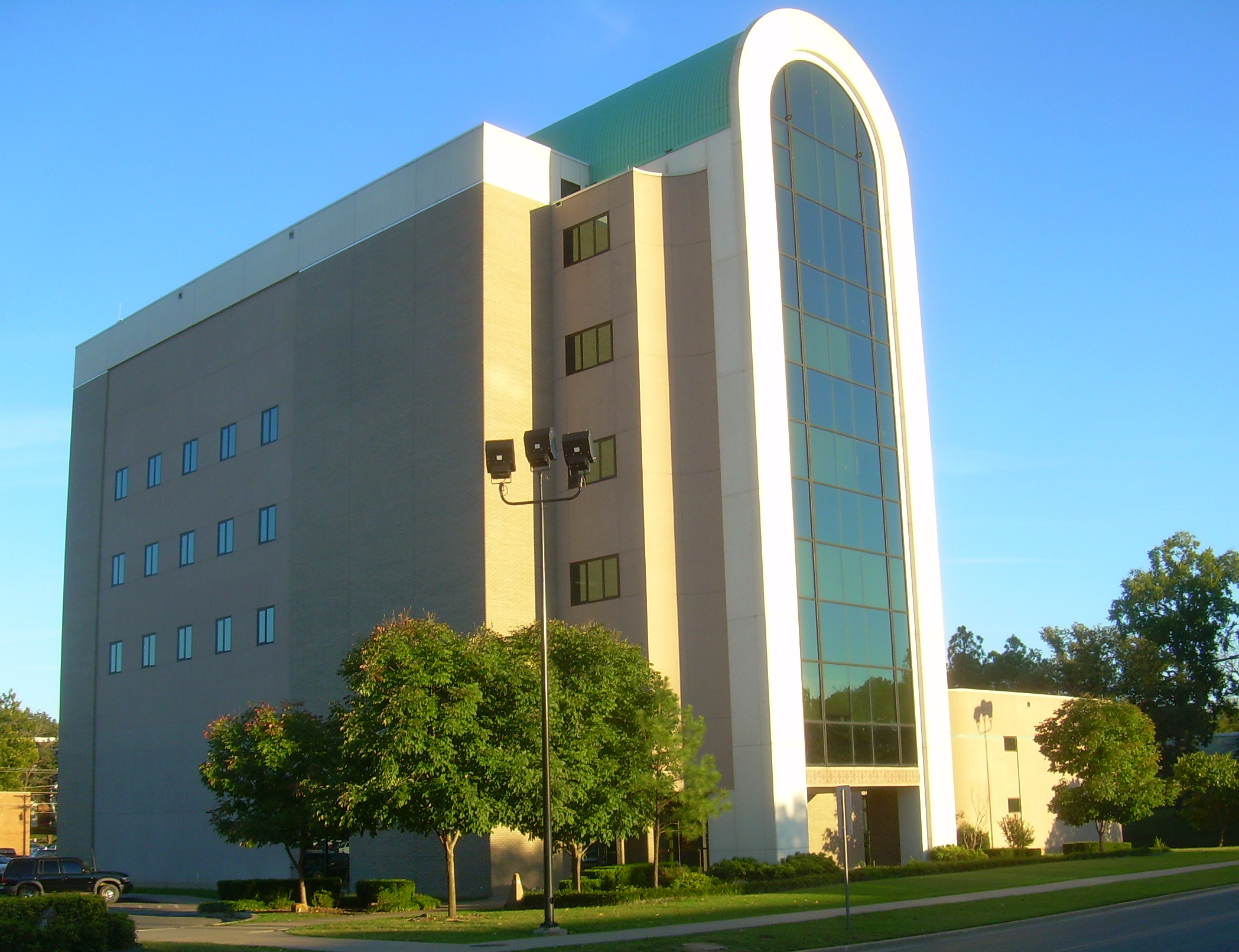 NSU Net Building